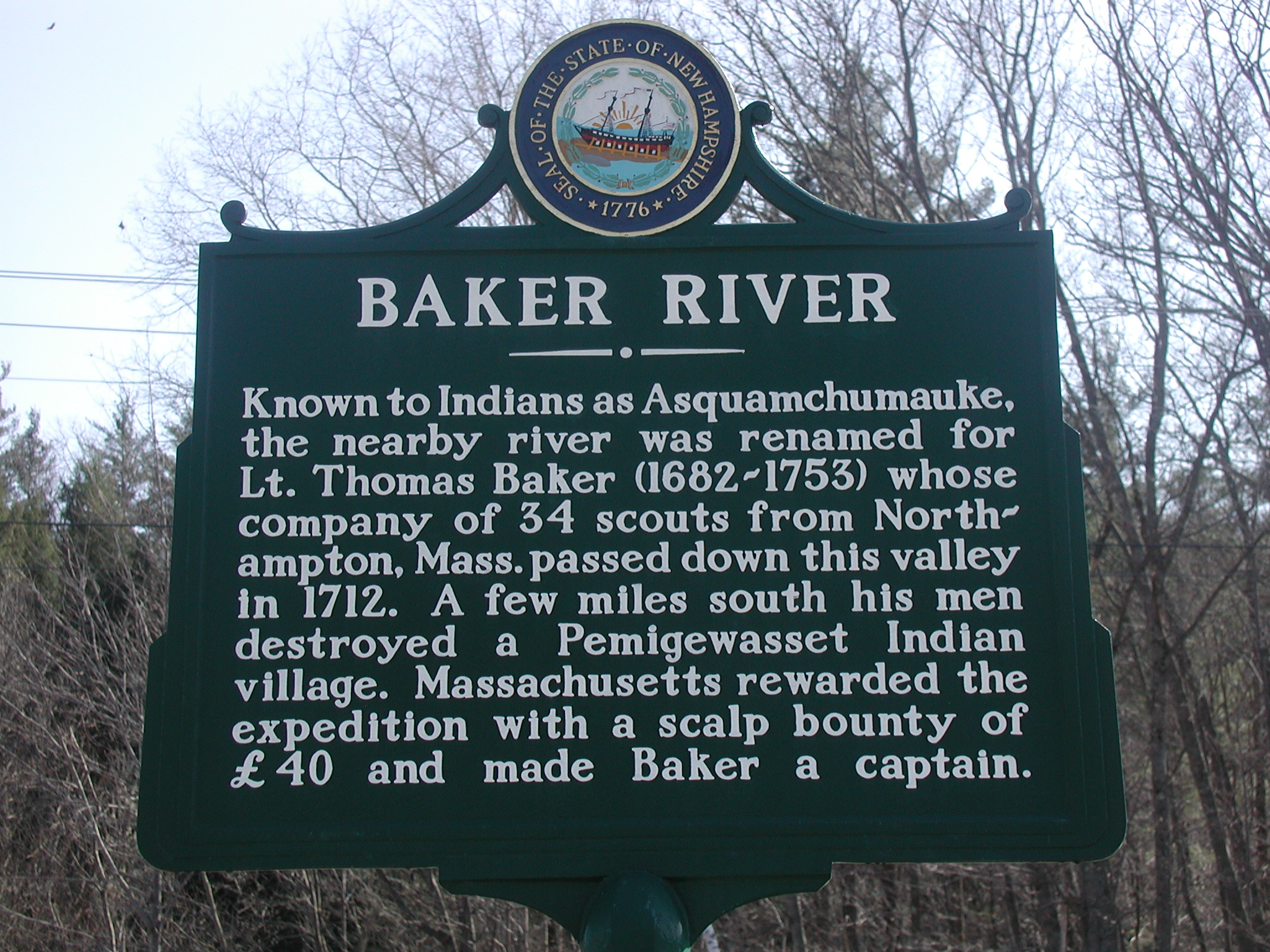 Baker River Historic Marker